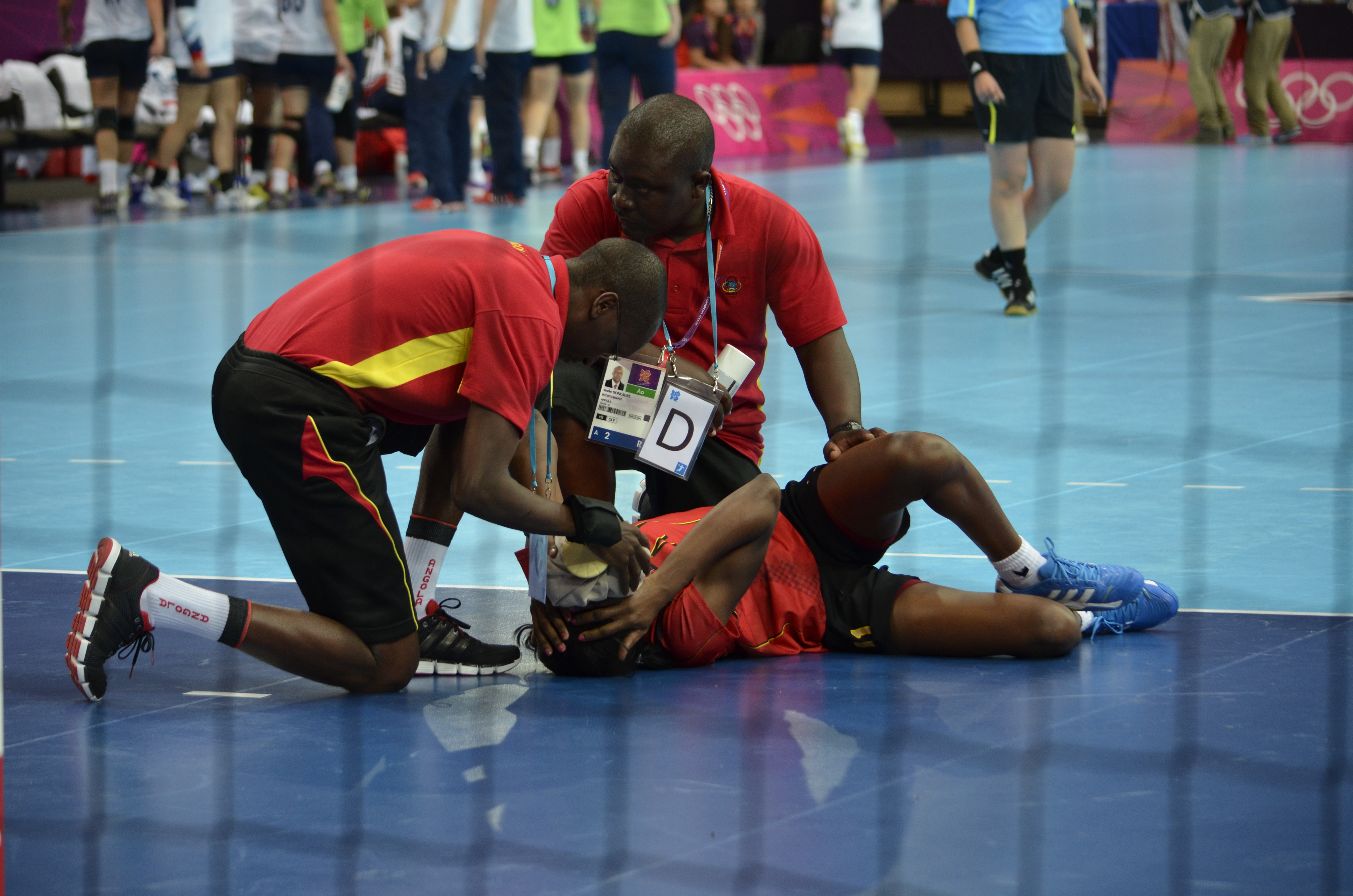 Handball at the 2012 Summer Olympics, Angola vs Great Britain, Angolan player down